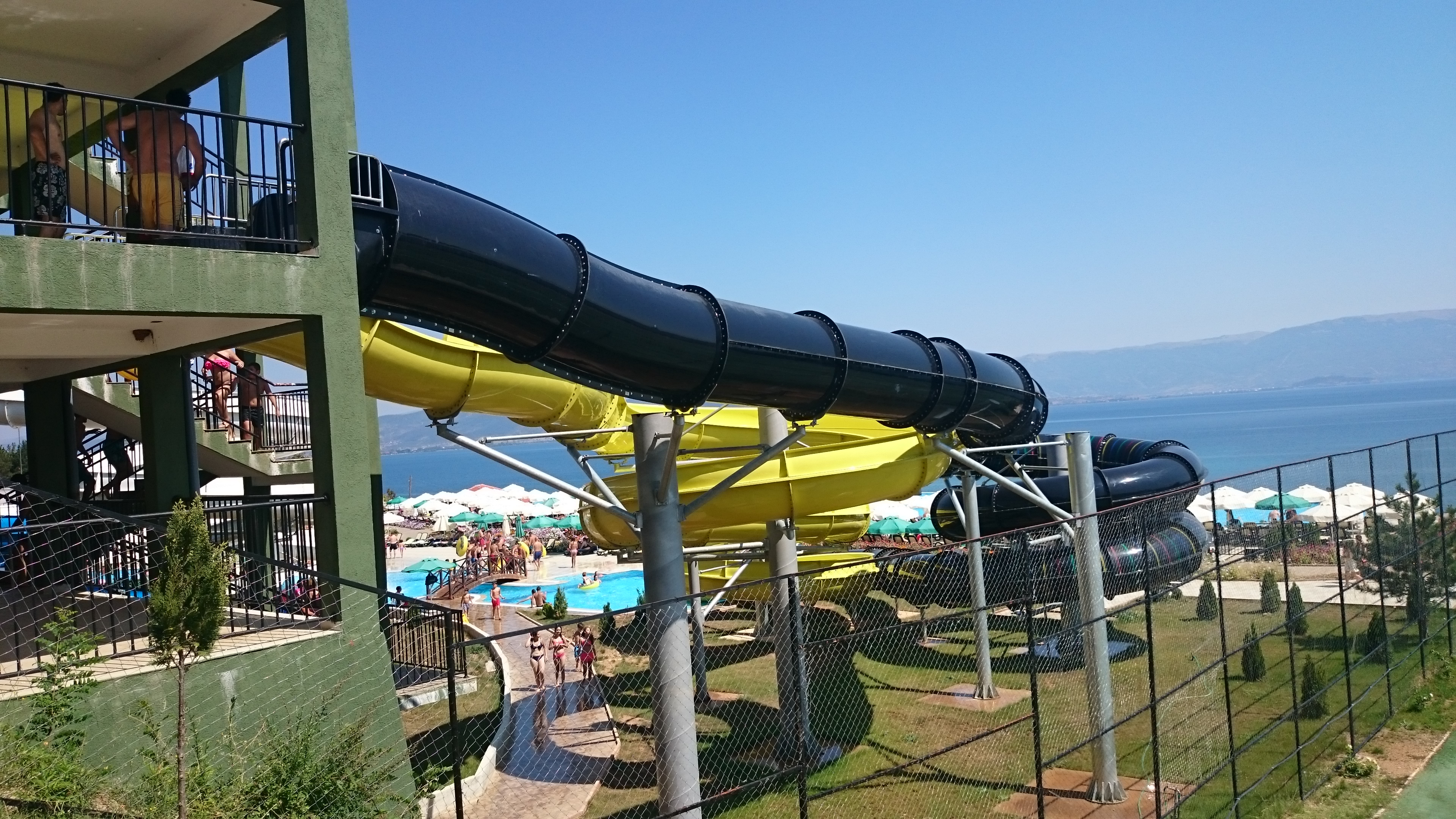 Hotel Izgrev in Struga. Macedonia Ова е фотографија на споменик на културата во Македонија со типски код: B011This is a a photo of a cultural monument in North Macedonia with type id: B011